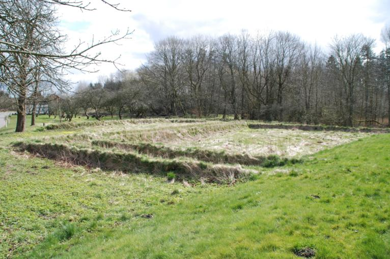 Ruins of Tvis Monastery, Denmark